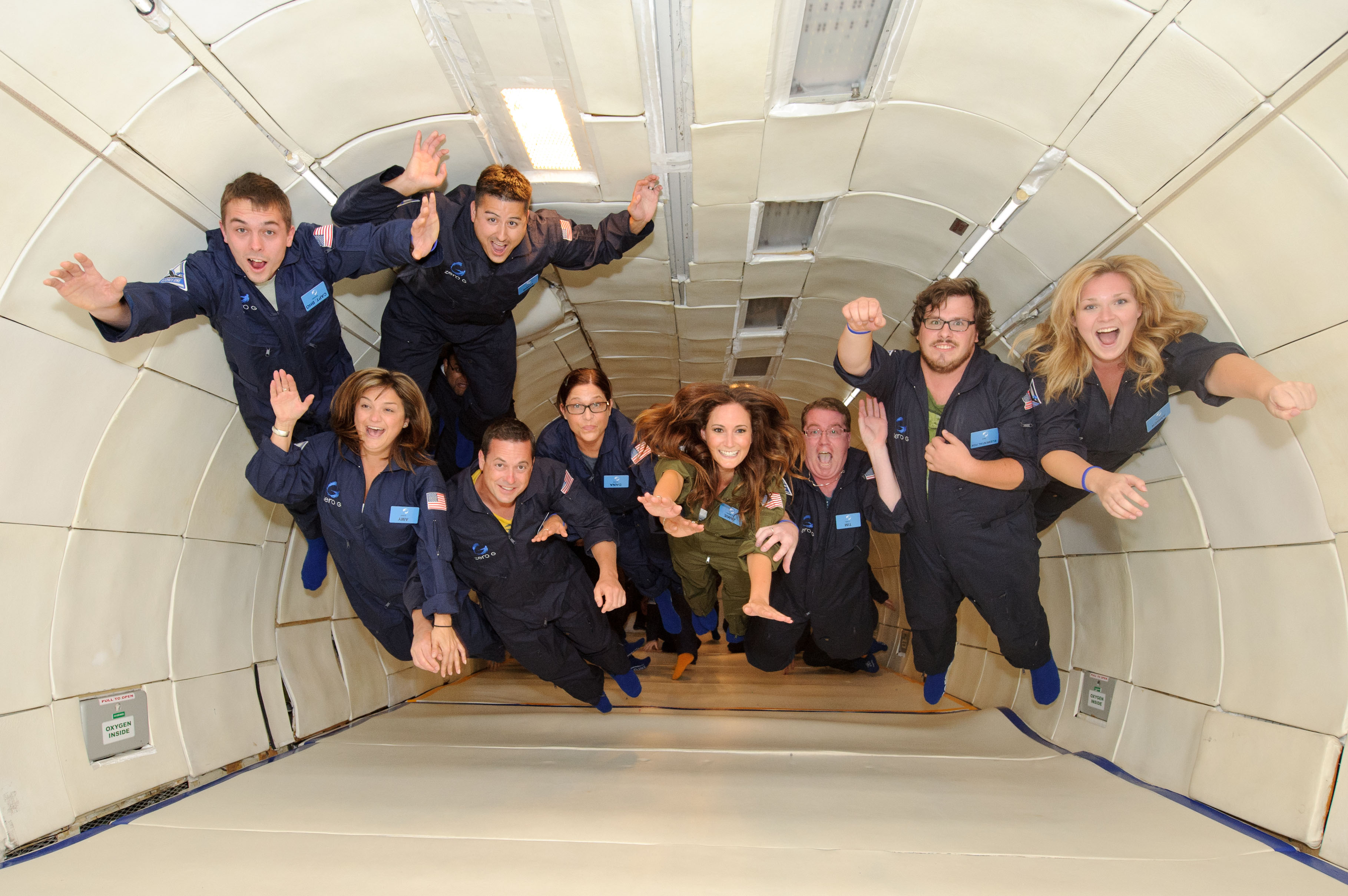 © Al Powers